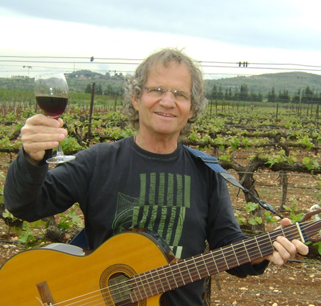 Ofer Gavish picture taken while guiding a "singing tour"